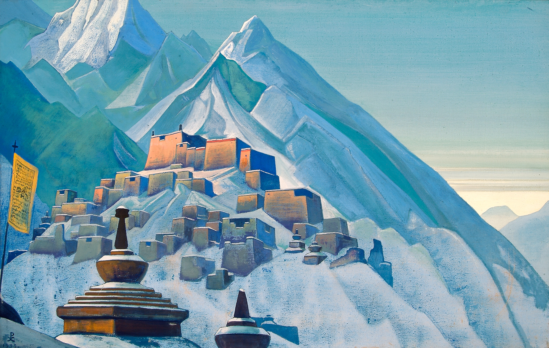 Roerich N.K. Tibet. Himalayas. 1933. Tempera on canvas. 74 x 117 cm.